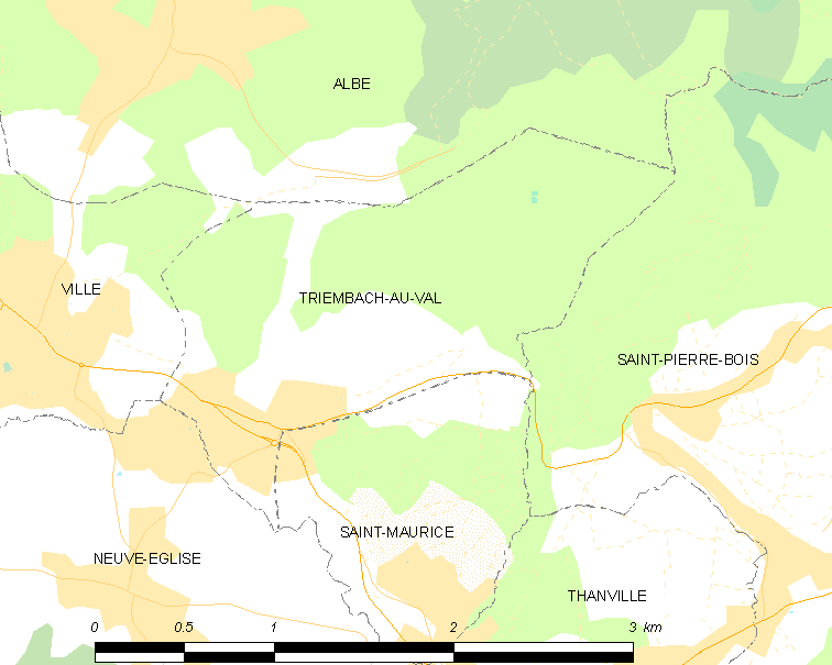 Map of French municipality